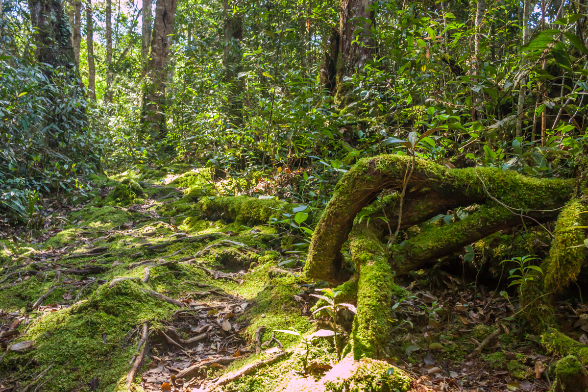 Example of a mossy forest near the top of gunung berembun